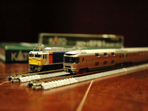 Kato N-gauge models of the "Cassiopeia" sleeping car trainset with dedicated EF81 electric locomotive